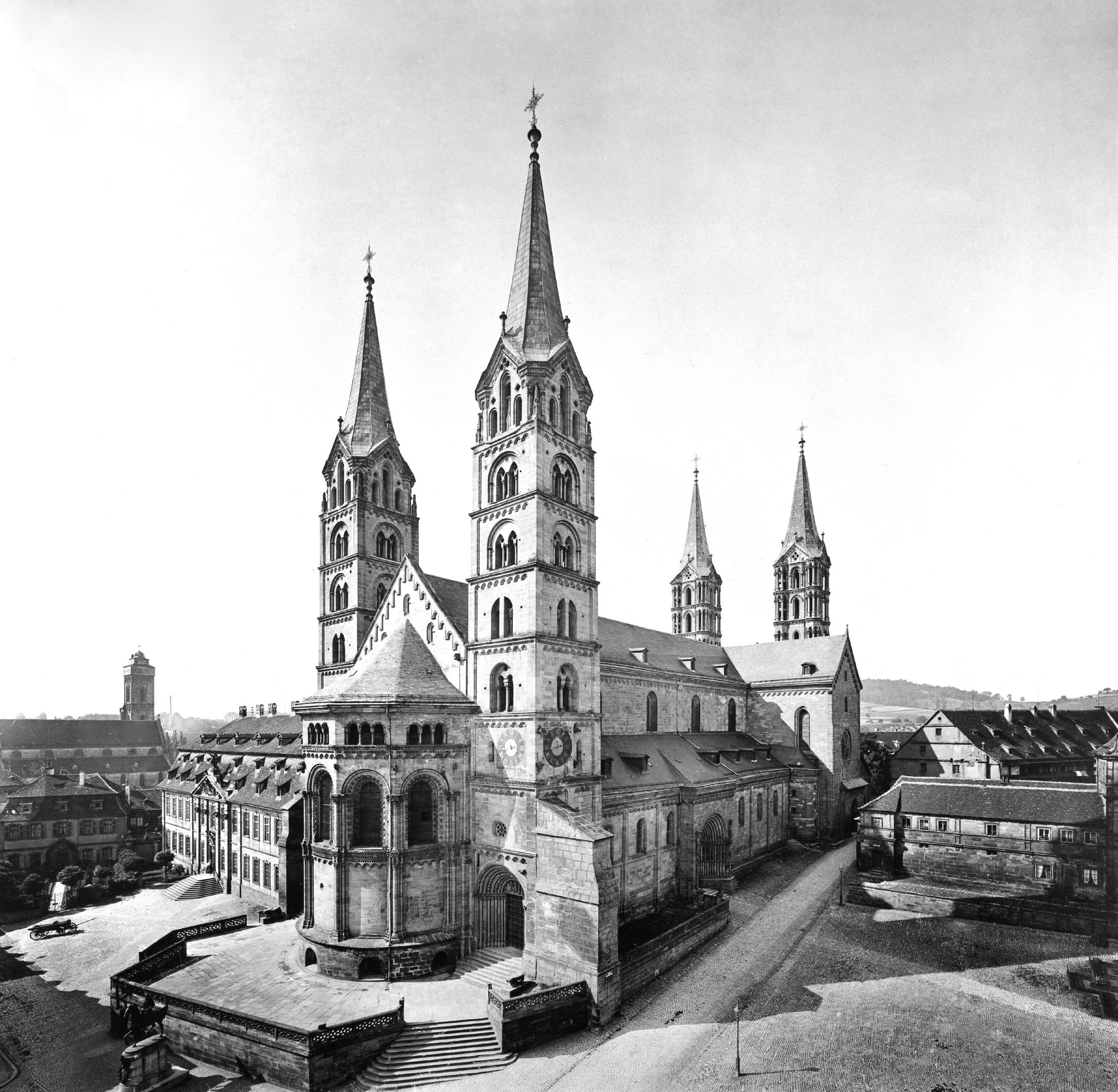 The Cathedral of Bamberg (Germany) in 1880